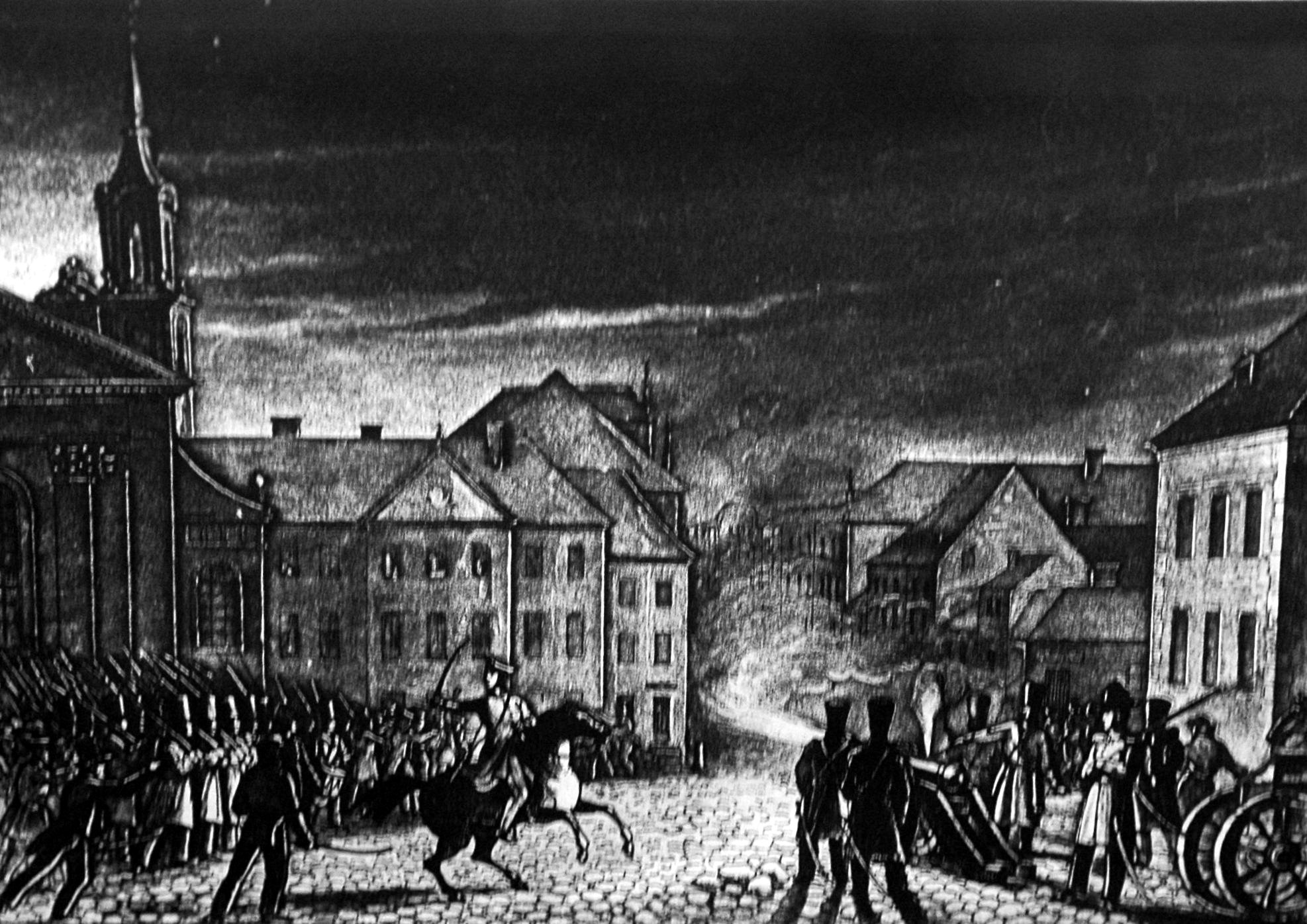 Made on a summer day in the Museum of the Polish Army in Warsaw A series of anonymous xylographs depicting the early stages of the November Uprising in Warsaw, as well as the aftermath of the fights - the Great Emigration Interjection of Długa and Miodowa streets